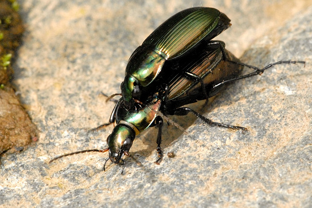 Poecilus versicolor from Commanster, Belgian High Ardennes .